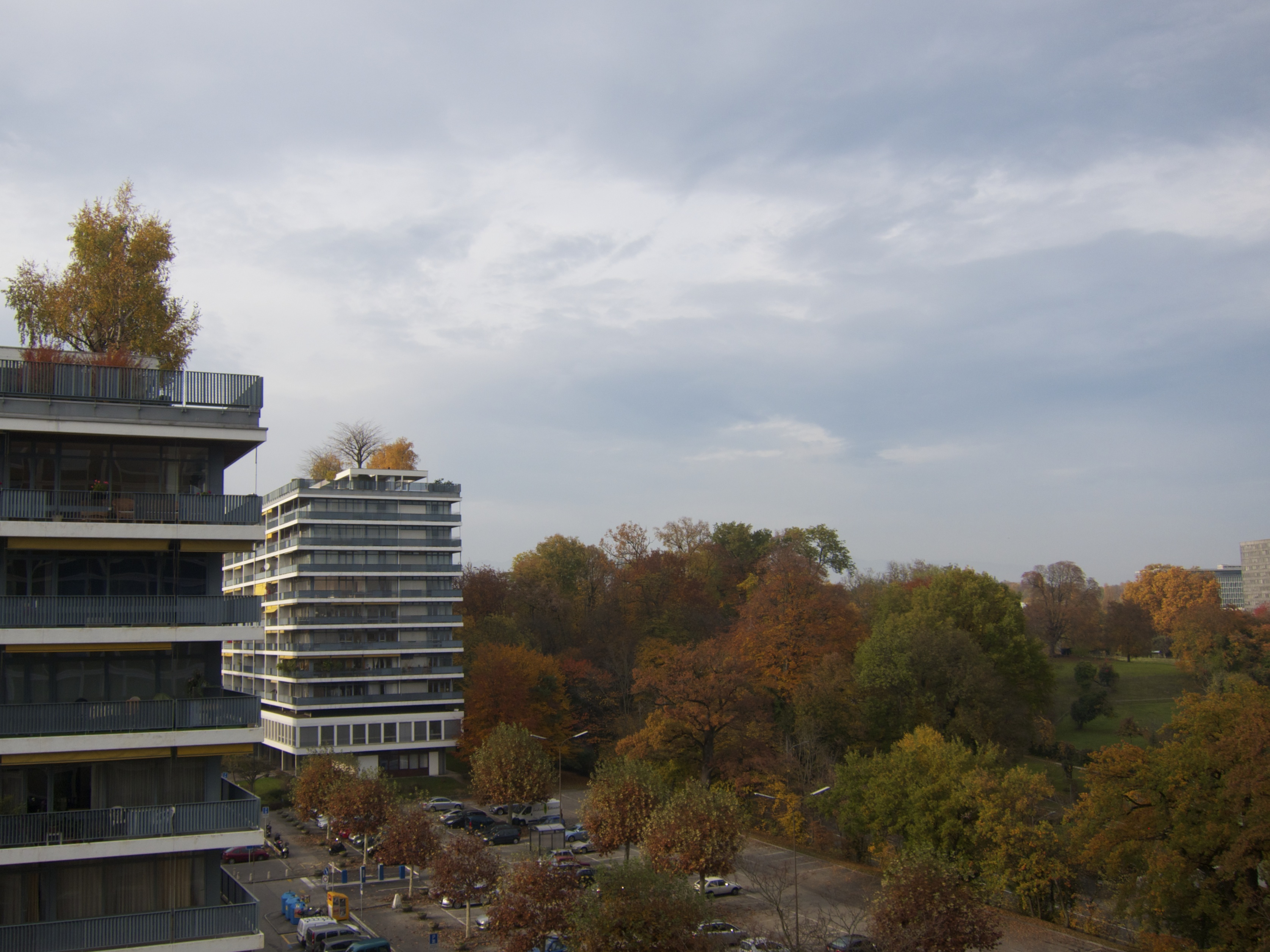 View from my room.